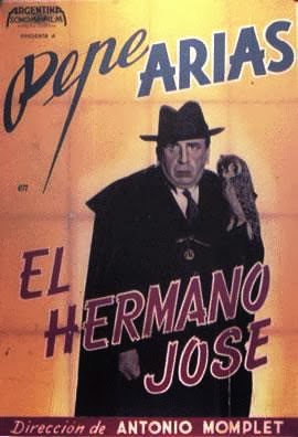 Poster for the 1941 Argentine film El hermano José starring Pepe Arias